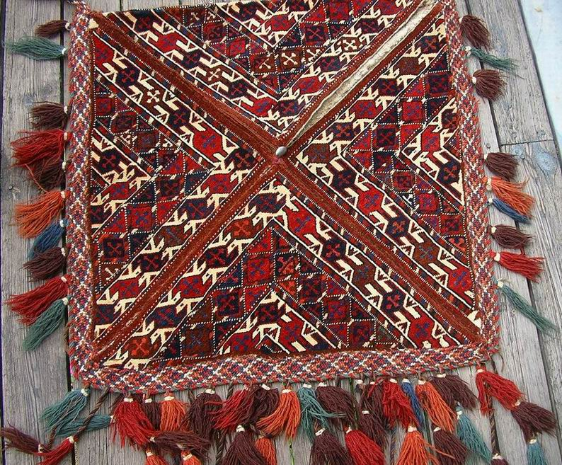 Yomut Bokche